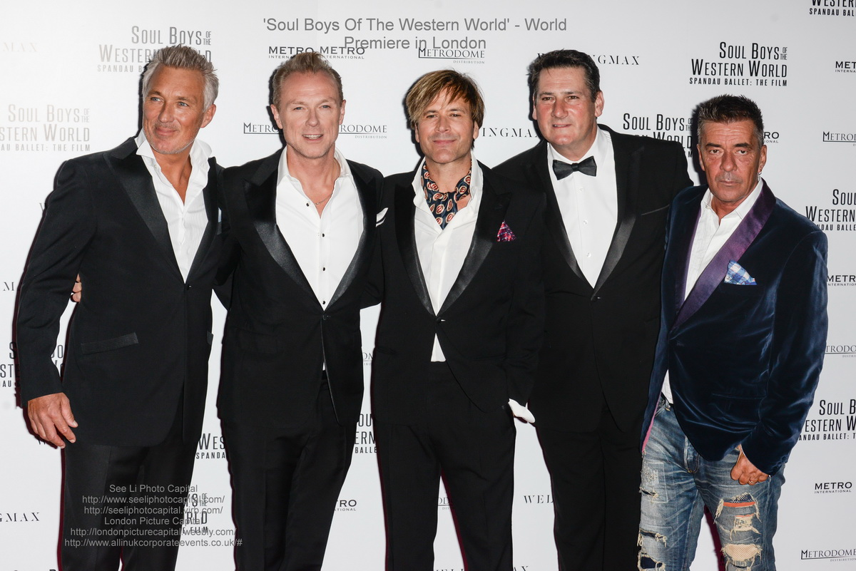 LONDON, ENGLAND - SEPTEMBER 30 2014 : Martin Kemp, Gary Kemp,Steve Norman, Tony Hadley and John Keeble attend the World Premiere of 'Soul Boys Of The Western World' at Royal Albert Hall on September 30, 2014 in London, England. (Photo by See Li)